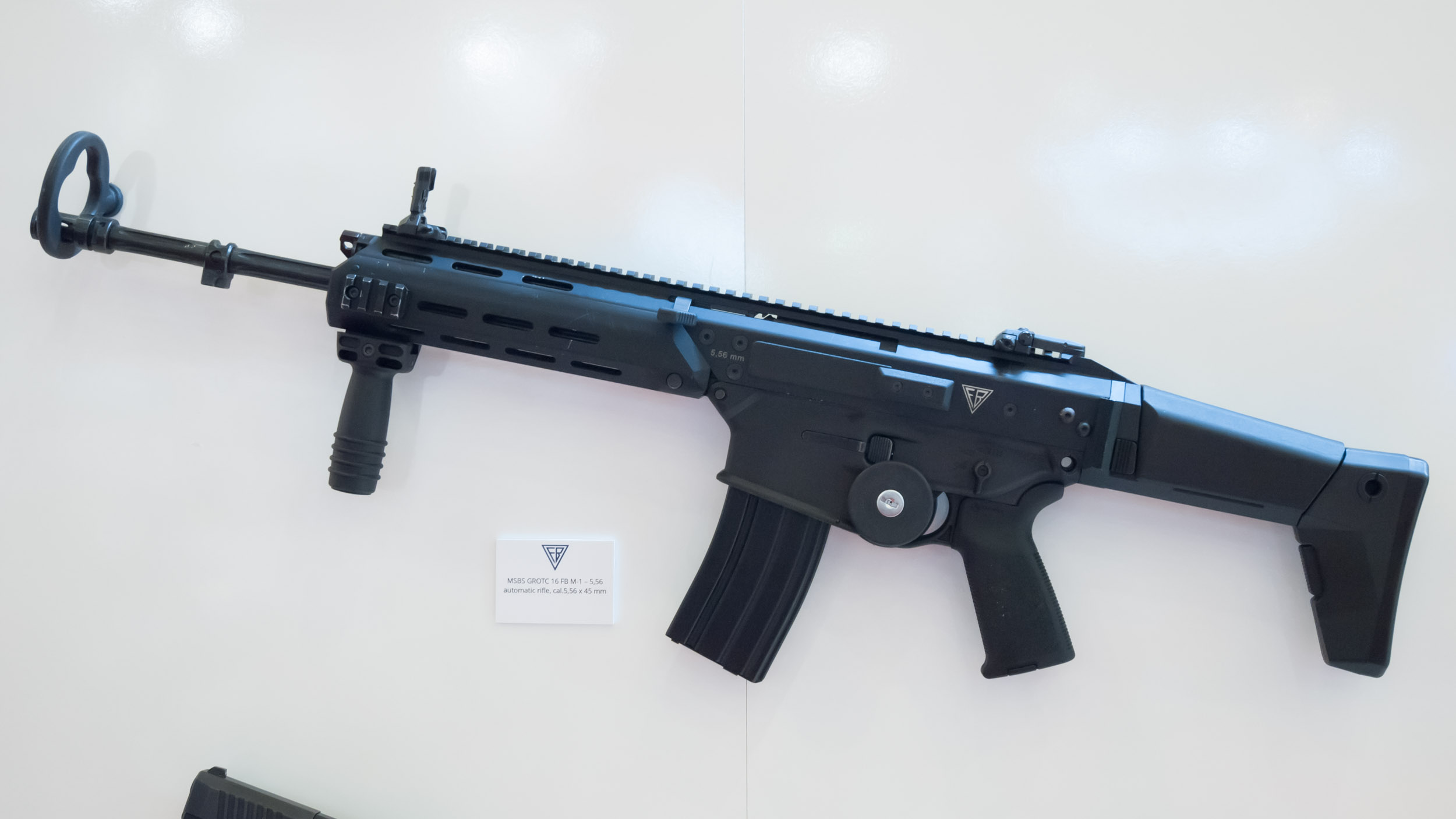 MSBS GROT modular rifle by Polish company FABRYKA BRONI "ŁUCZNIK", 'Zbroya ta Bezpeka' military fair, Kyiv, Ukraine, 2018